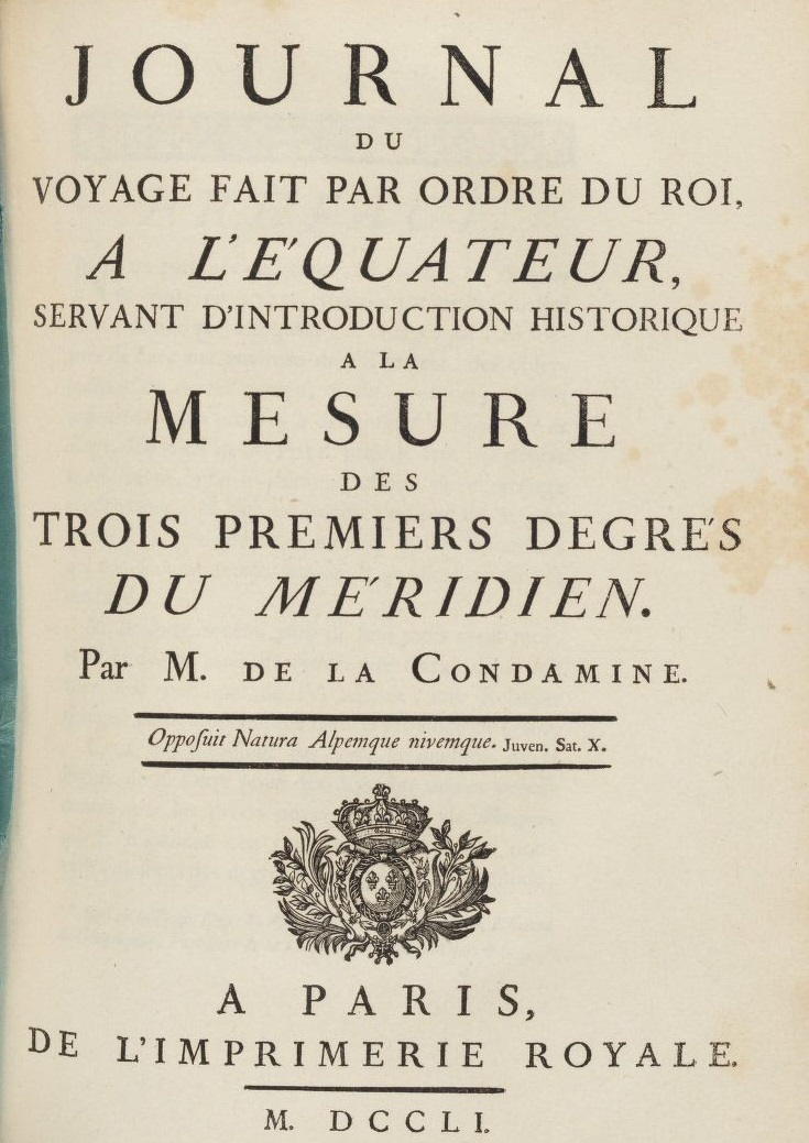 Title page: Journal du voyage fait par ordre du roi, a l’équateur (Paris, 1751), by Charles-Marie de La Condamine (1701-1774). LSoc 1621.3.10*, Houghton Library, Harvard University